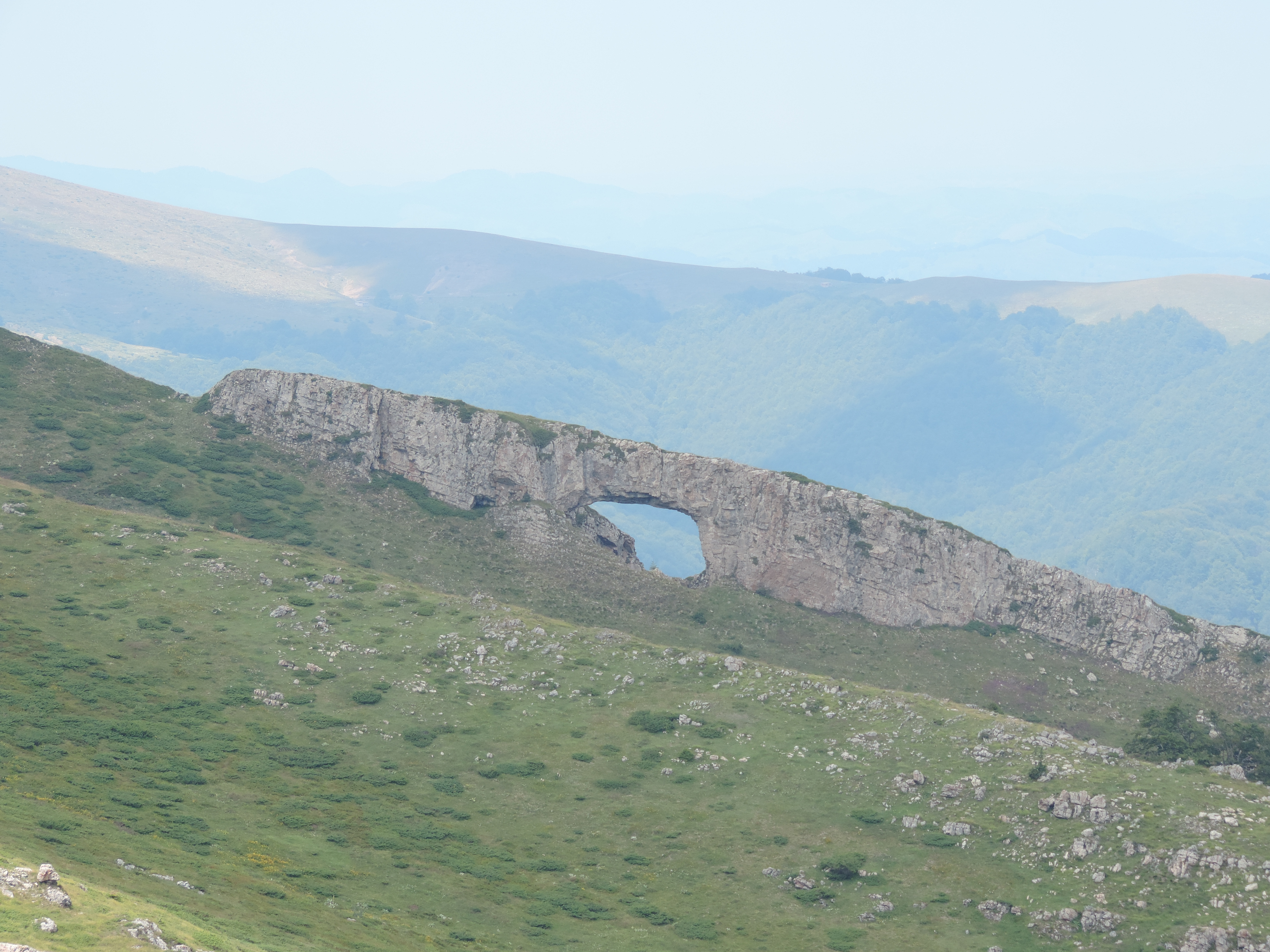 Markova dupka - stone bridge in Stara planina, Bulgaria.